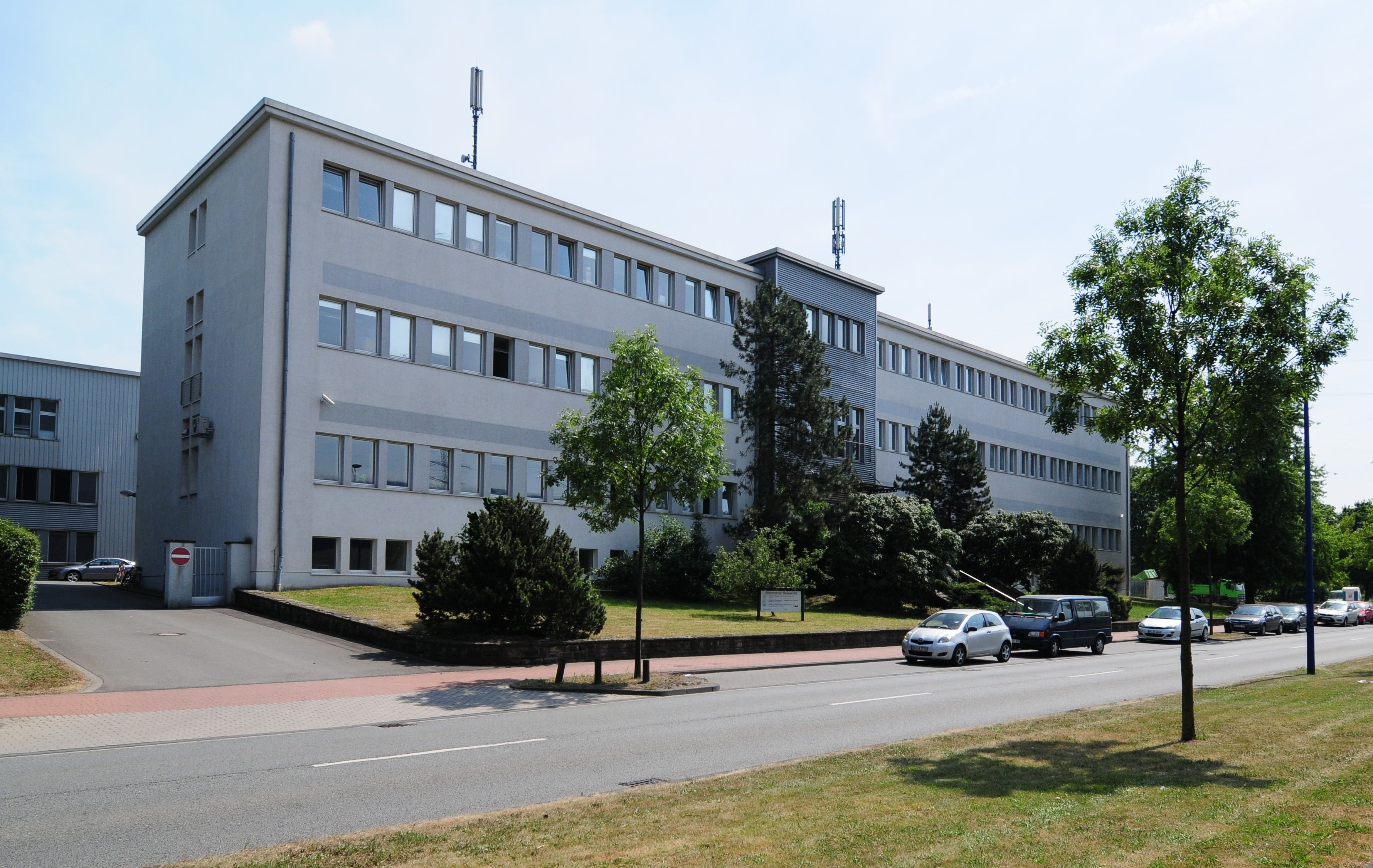 Institut für Energie- und Umwelttechnik e. V. - Hauptgebäude